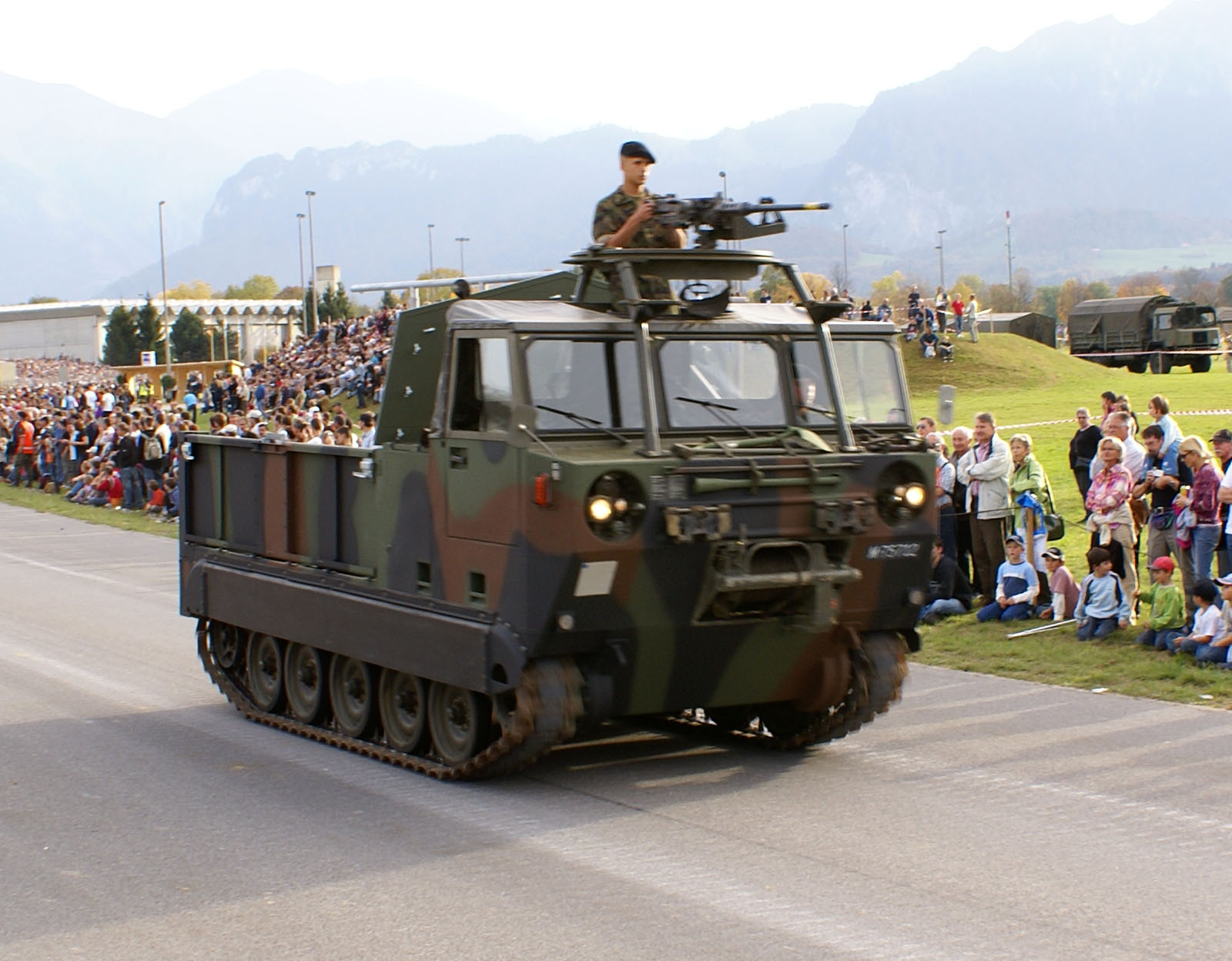 Swiss Army. M548 tracked cargo carrier, used for artillery munitions supply. Participating in the "Steel Parade" of the 2006 Army Days, Thun.